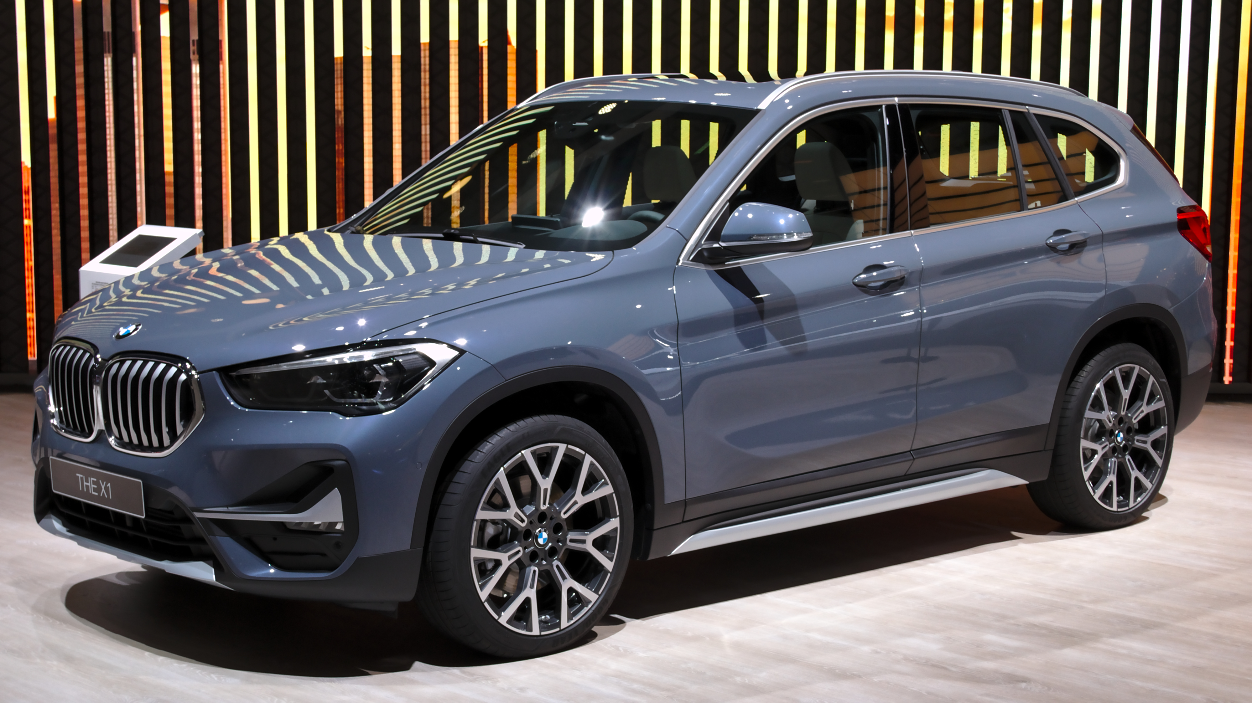 BMW_F48 at IAA 2019